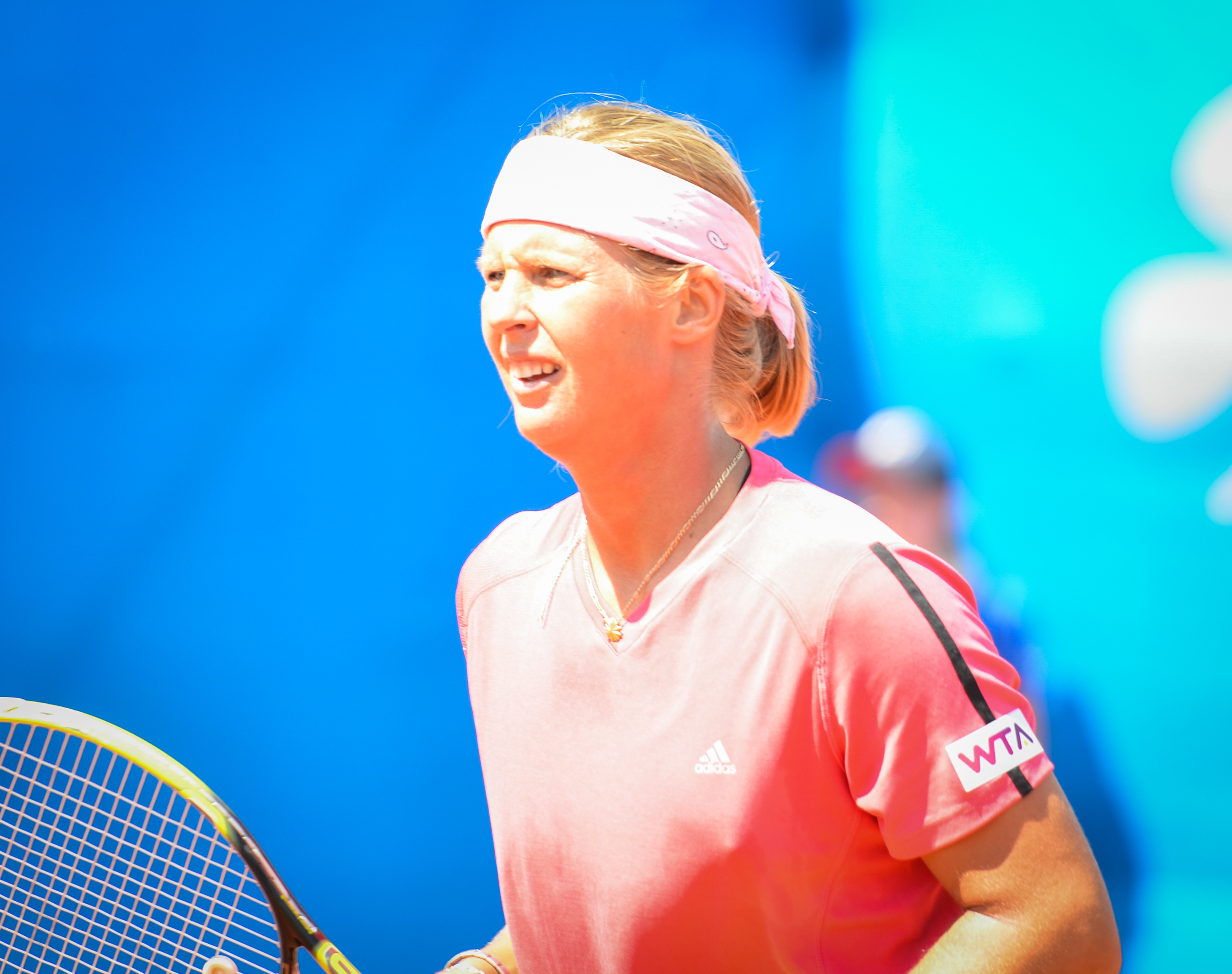 Sandra Klemenschitsduring her 1st round doubles match with Shuko Aoyama againstIlona Kremen and Ana Vrljić at the 2014 Nürnberger Versicherungscup on May 20, 2014